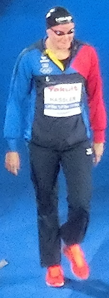 FINA World Championships, Budapest, 2017-07-25, 1500m freestyle final, Julia Hassler (Liechtenstein)